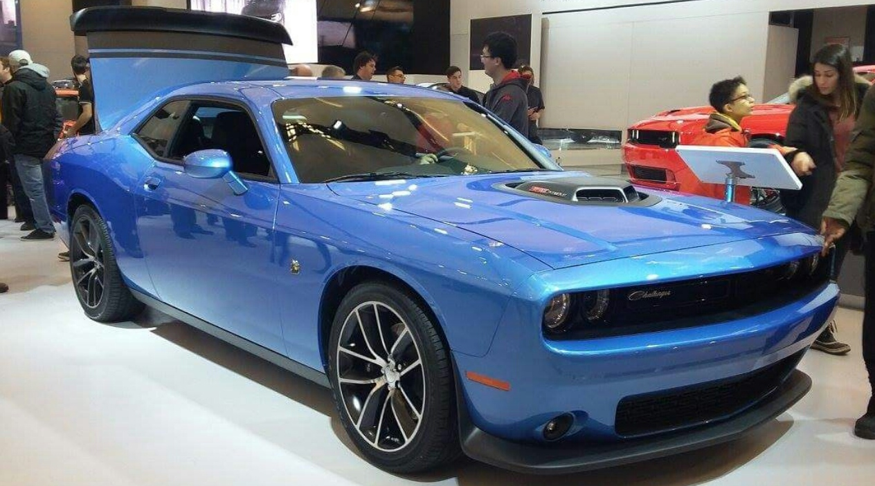 2016 Dodge Challenger photographed in Montreal, Quebec, Canada at the 2016 Montréal International Auto Show.